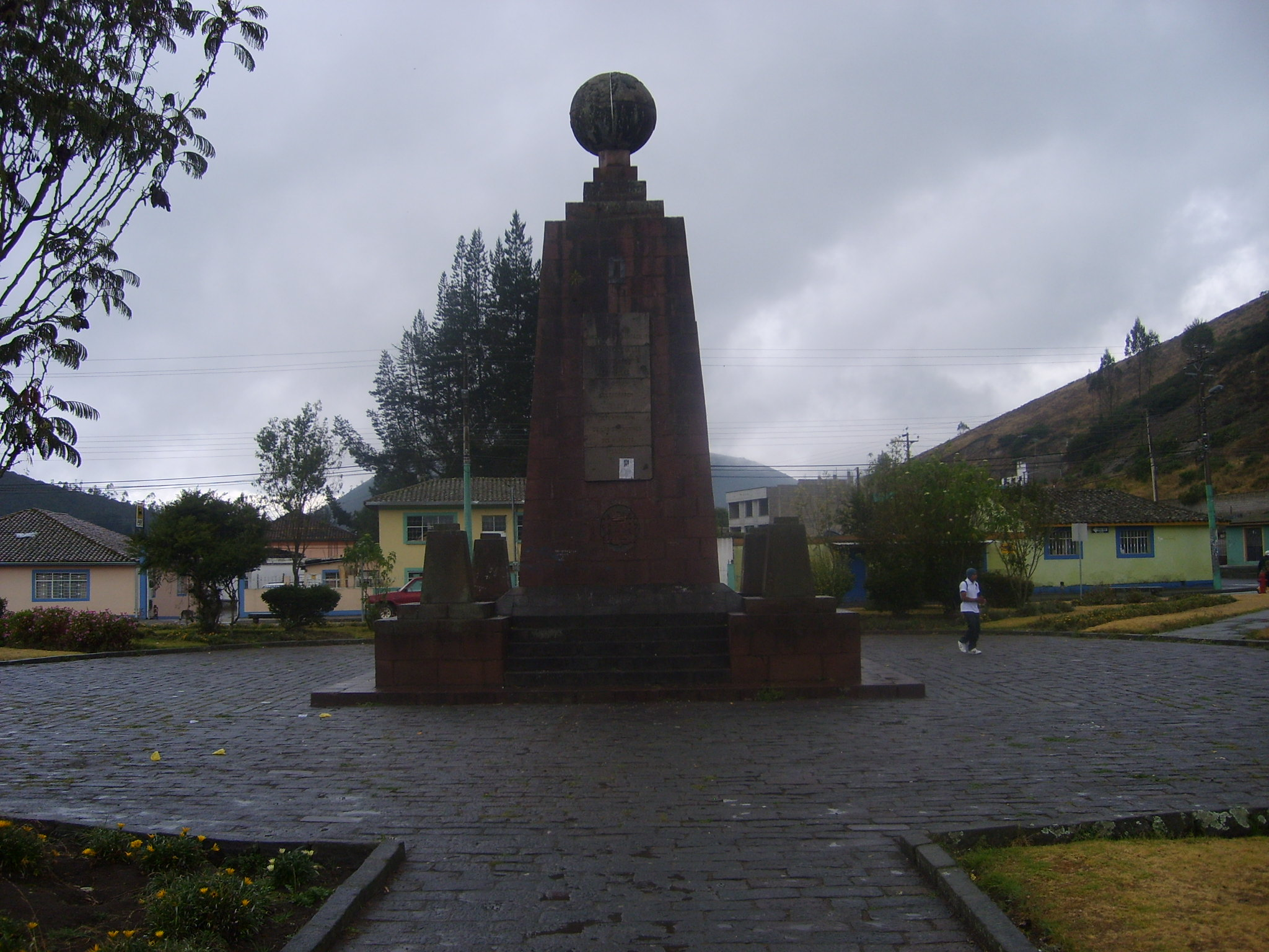 An old monument to the demarcation of equator, located at the main square of Calacali in Central Ecuador, about 15 km outside the touristic village of "Mitad del Mundo"